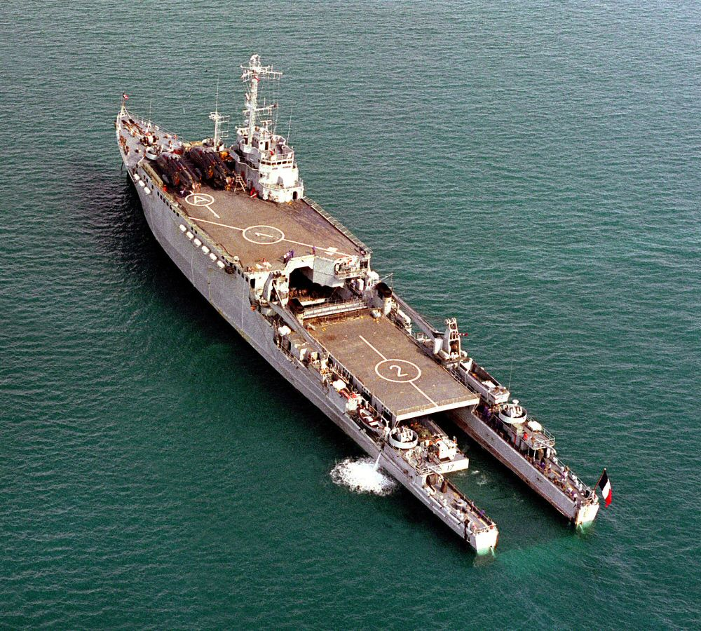 Aerial port quarter view of the of French landing ship dock Ouragan (L 9021), her stern gate open for landing craft operations, at sea during the NATO Southern Region exercise Dragon Hammer 90.